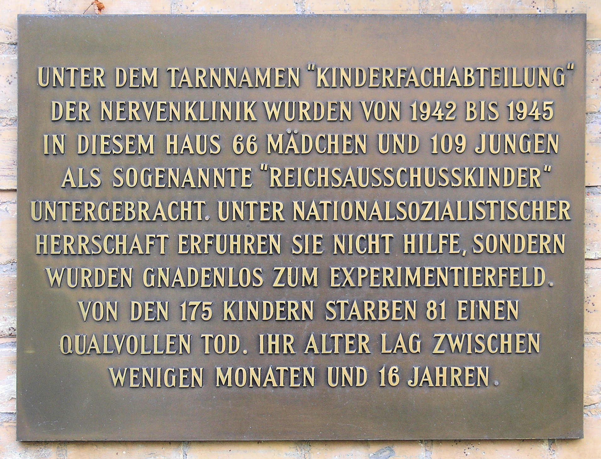 Memorial plaque, Kinderfachabteilung Wiesengrund, Eichborndamm 238, Berlin-Wittenau, Germany